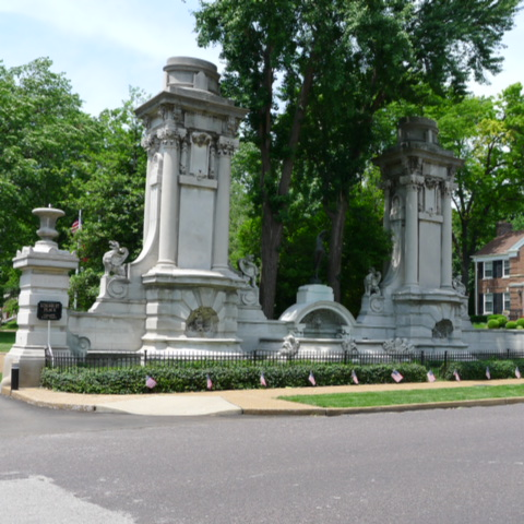 Front entrance to Kingsbury Place in St. Louis, MO